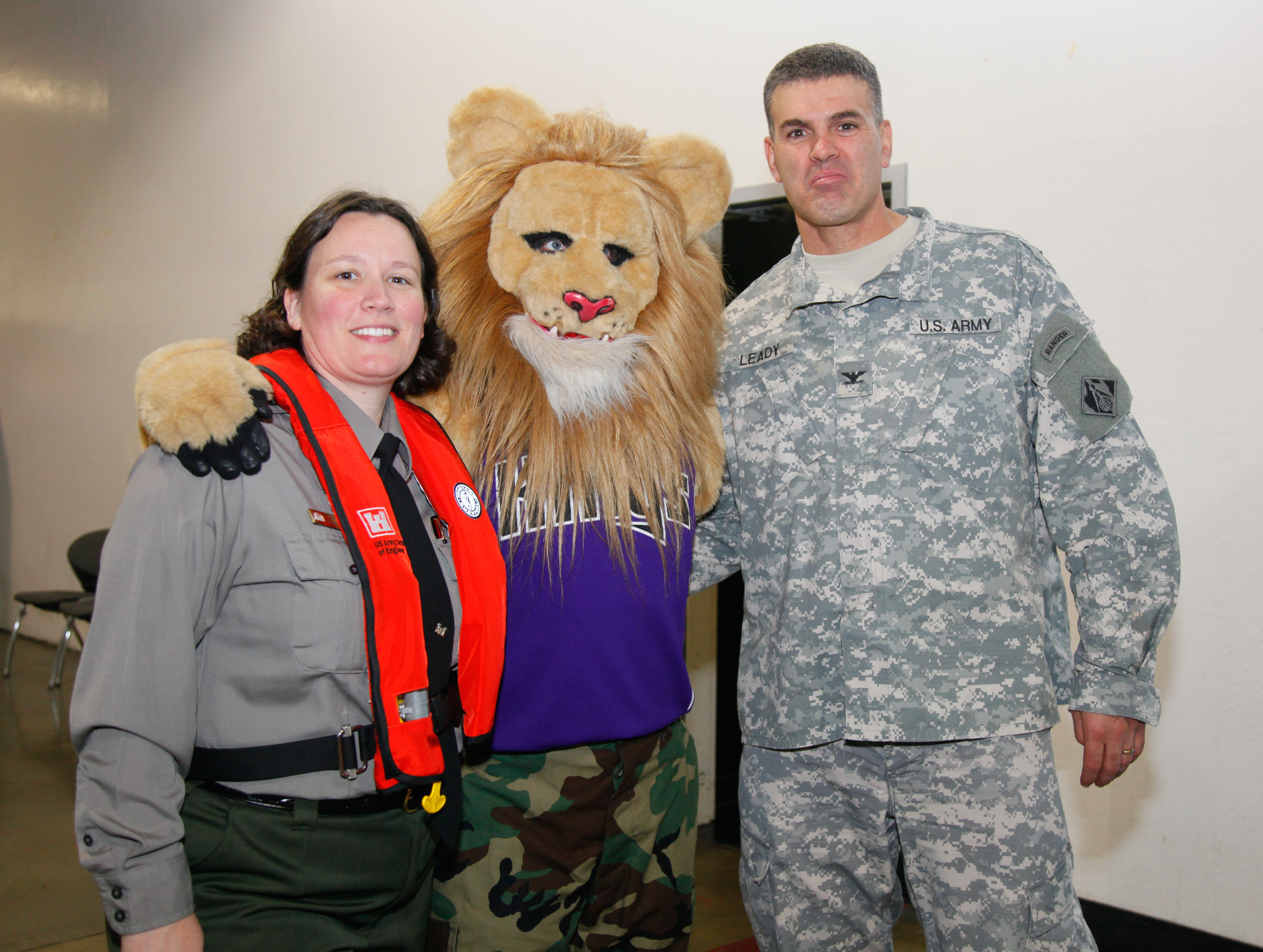 SACRAMENTO, Calif. (Nov. 12, 2010) – Col. Bill Leady (right), commander of the U.S. Army Corps of Engineers Sacramento District, and district park ranger Terry Hershey (left) pose with the Sacramento Kings basketball team mascot, Slamson, before the Kings’ Military Appreciation Night game here Nov. 10. The Sacramento District was recognized along with fellow military servicemembers during opening ceremonies and hosted a welcome booth to explain the Corps’ mission and educate attendees about levee safety, water safety and job opportunities with the Corps.